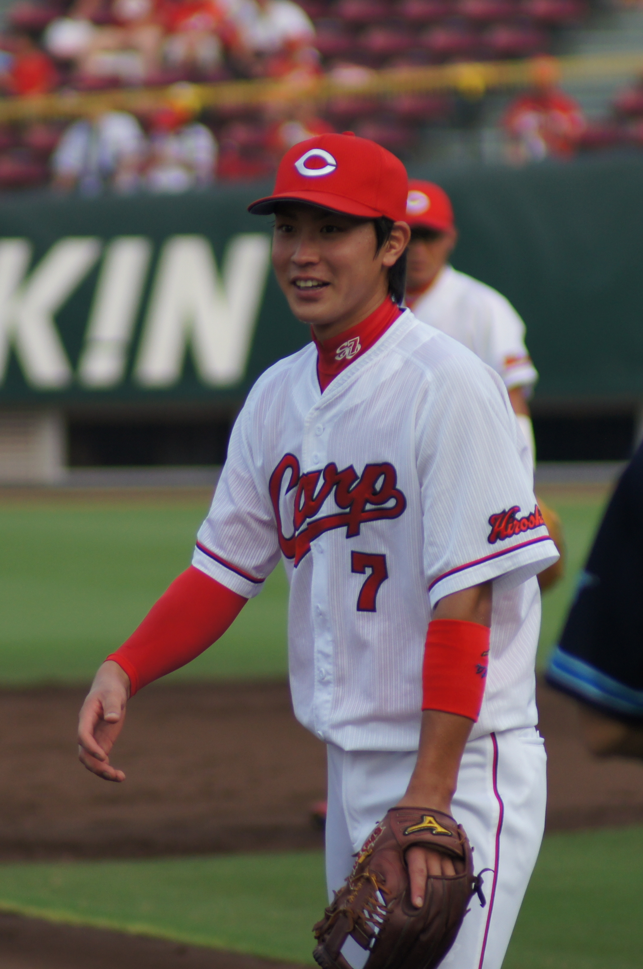 Shota Dobayashi, infielder of the Hiroshima Toyo Carp, at MAZDA Zoom-Zoom Stadium Hiroshima.